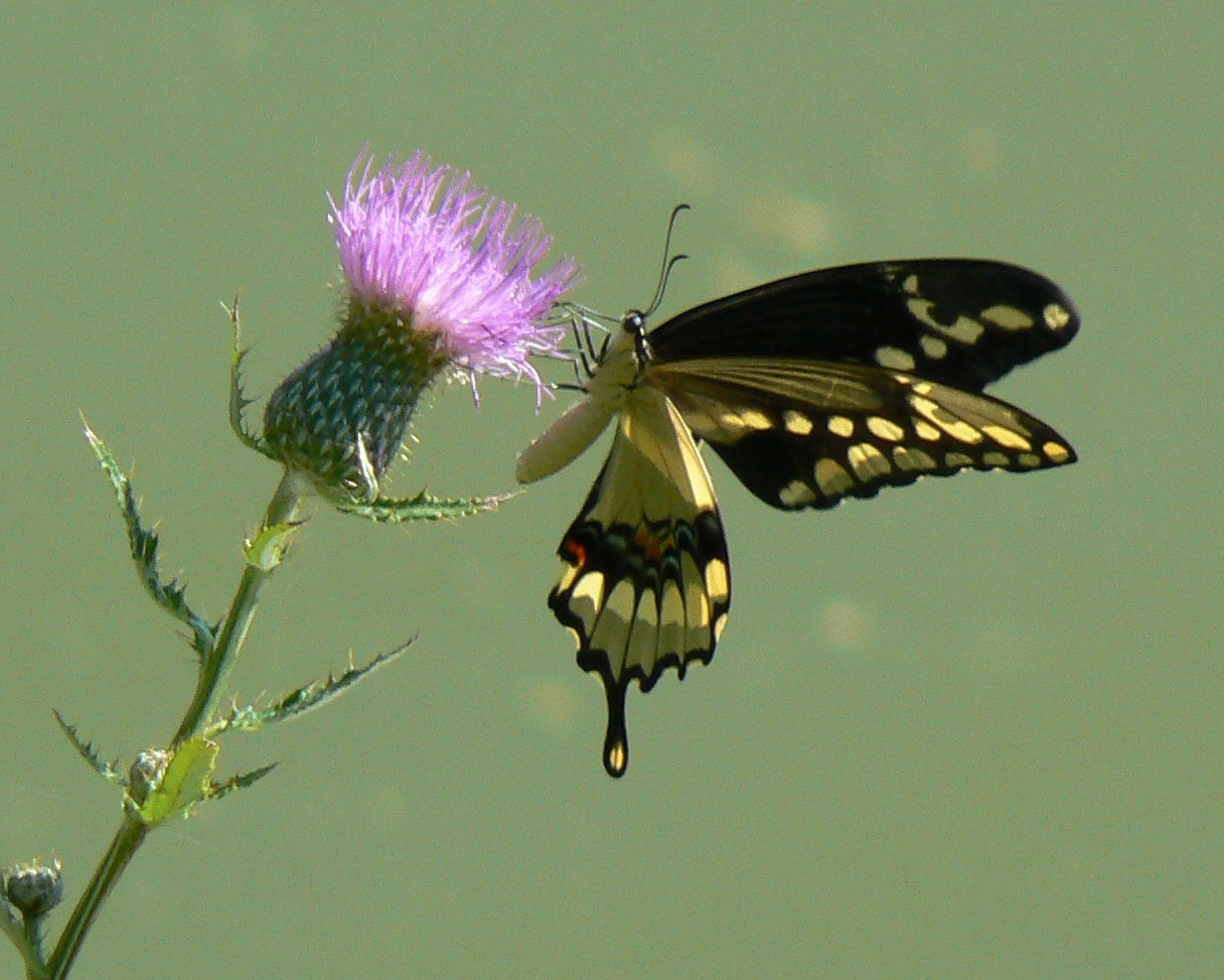 Giant Swallowtail (Papilio cresphontes) butterfly